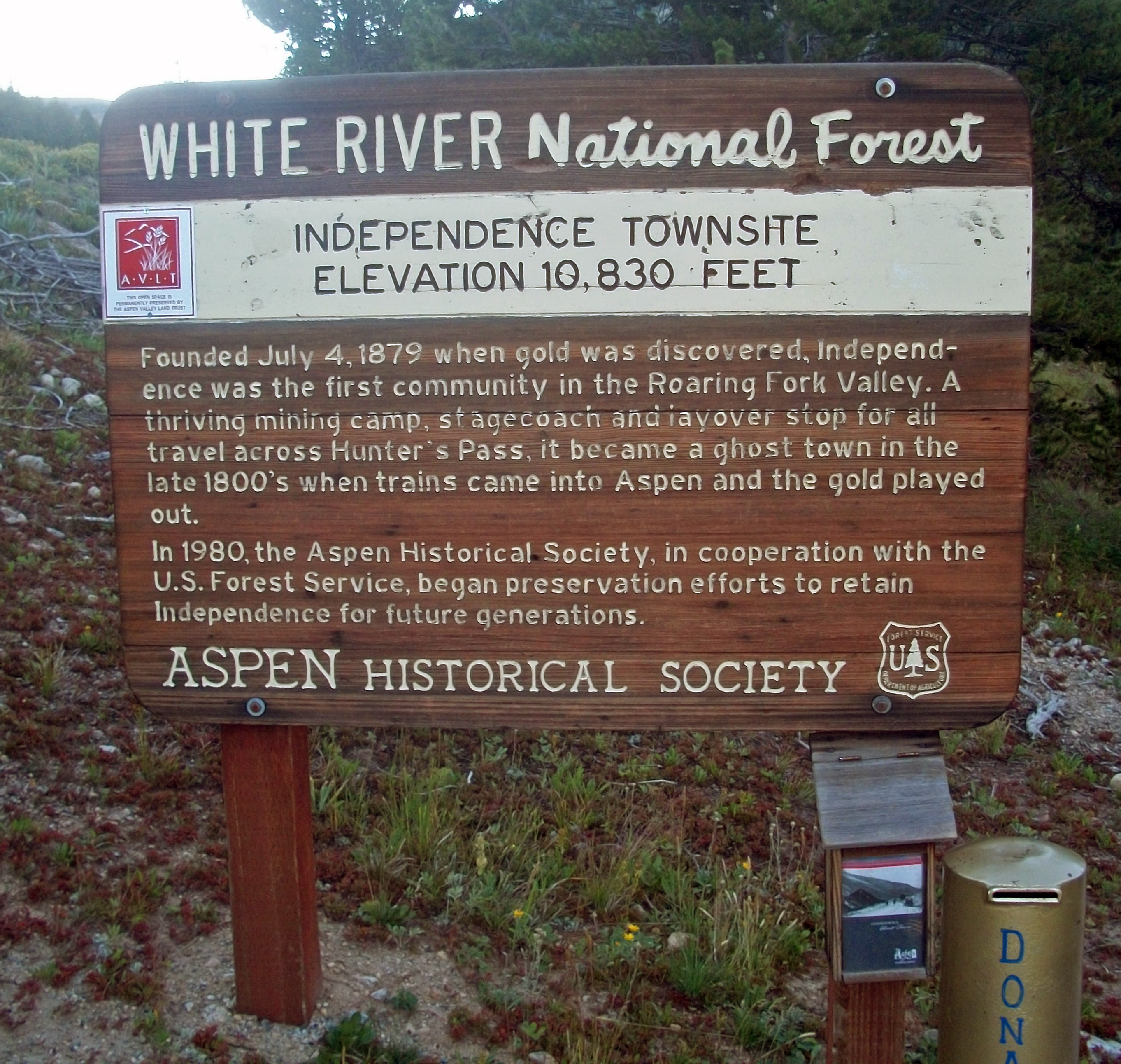 U.S. Forest Service interpretive plaque at site of Independence, CO, USA, first settlement in the Roaring Fork Valley, now a ghost town. As a U.S. federal government work, text is public domain.